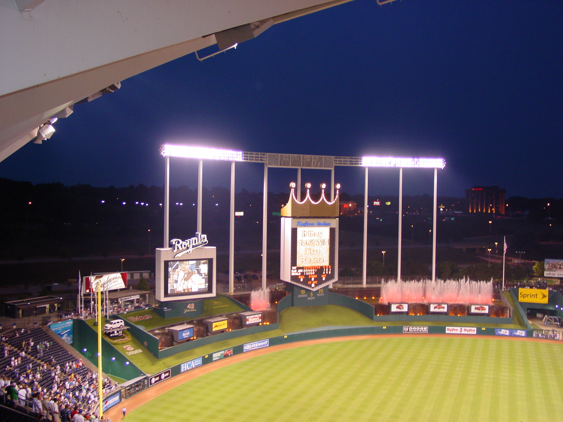 17:15, 7 July 2006 . . Pacman5 . . 2272×1704 (1,657,784 bytes) (night game at kauffman stadium)